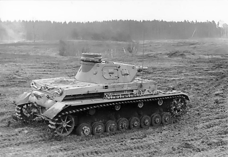 German Panzer-IV, version "D" on a training exercise in March 1940